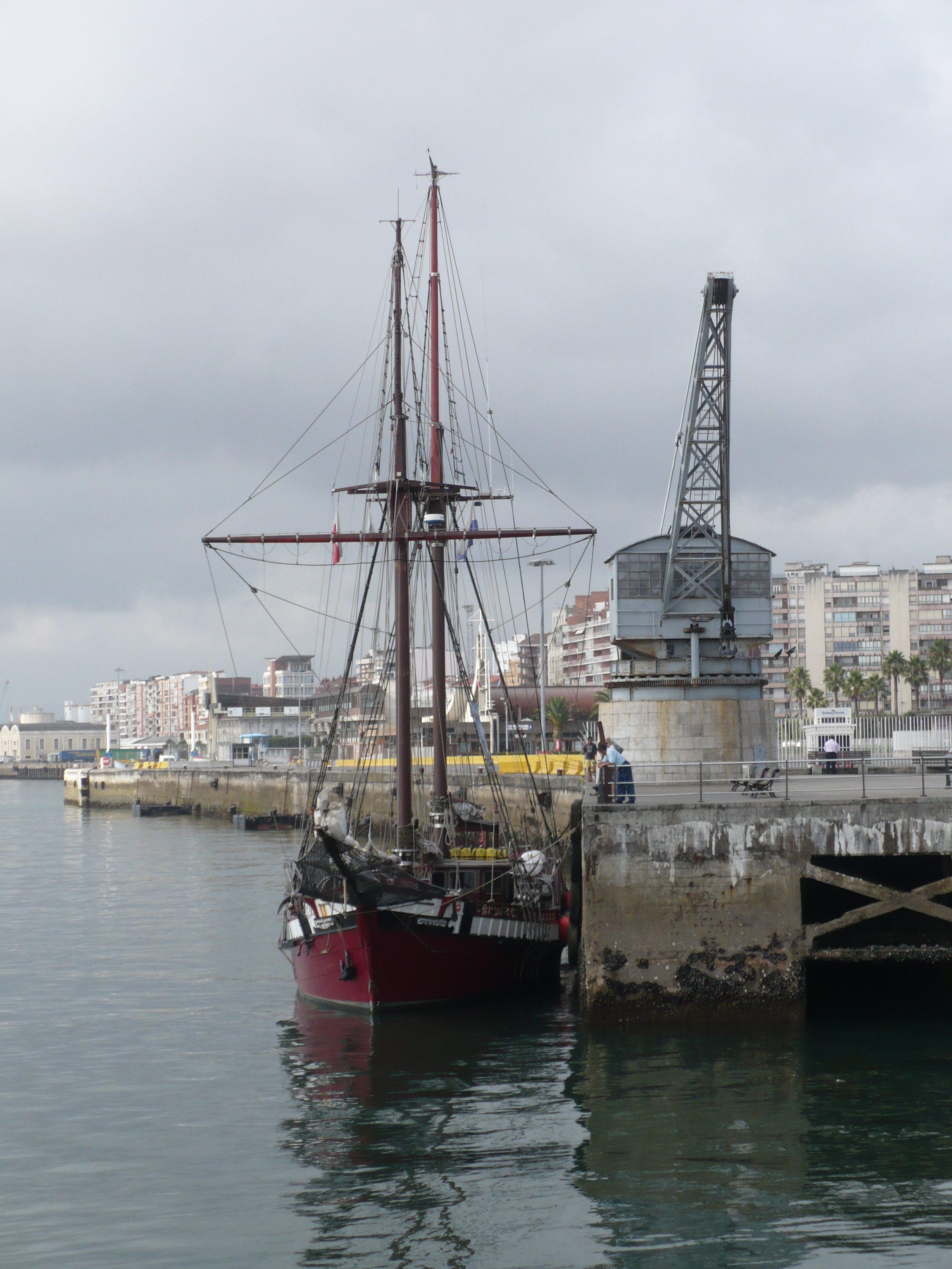 Schooner Cantabria Infinita anchored in Santandé (Cantabria)